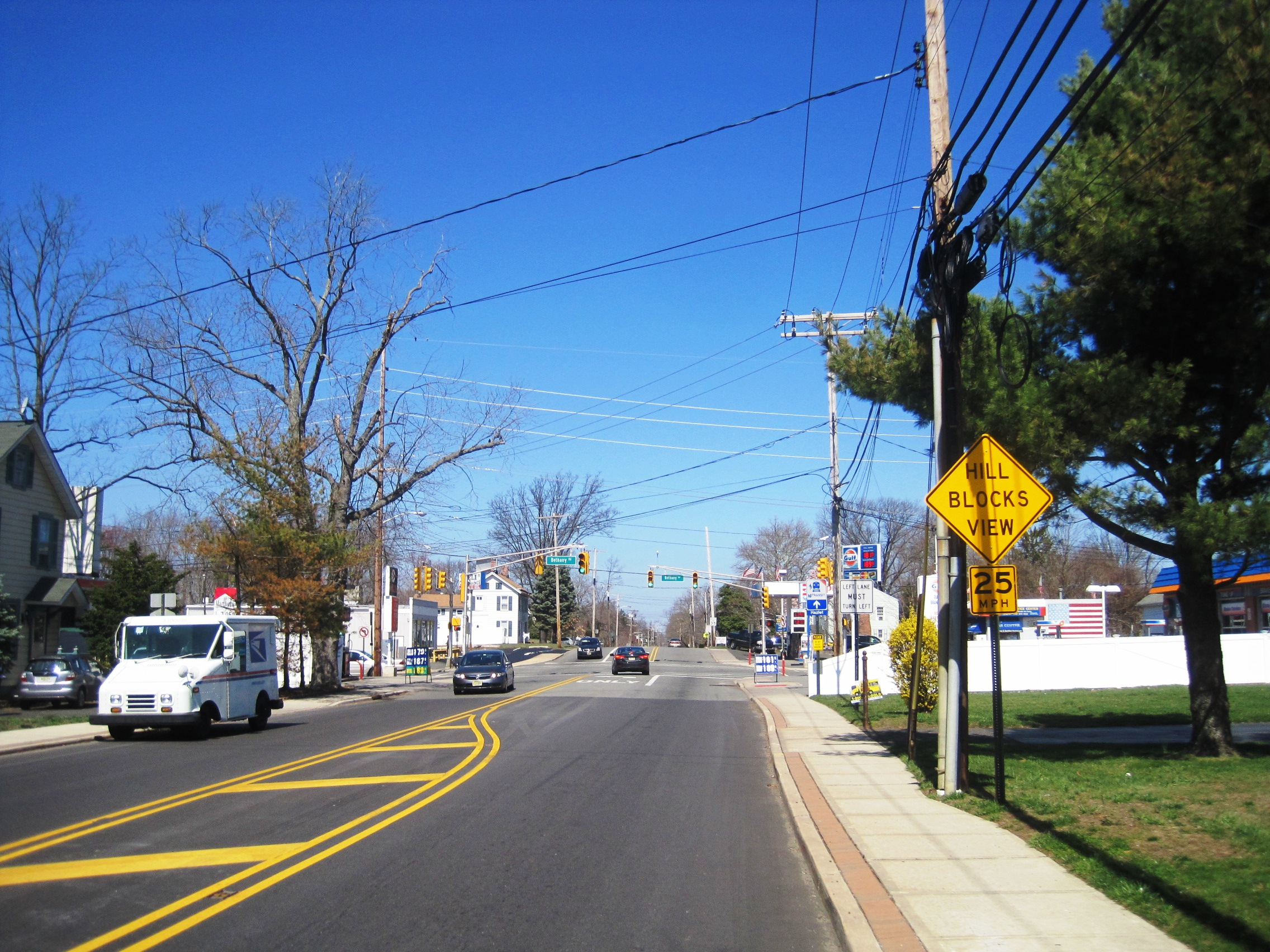 Photo of Morrells Corner, New Jersey, an unincorporated community on the border of Holmdel (vantage point) and Hazlet (ahead) townships. Photo taken looking north along Holmdel Road (County Route 4) at the intersection of Bethany Road.